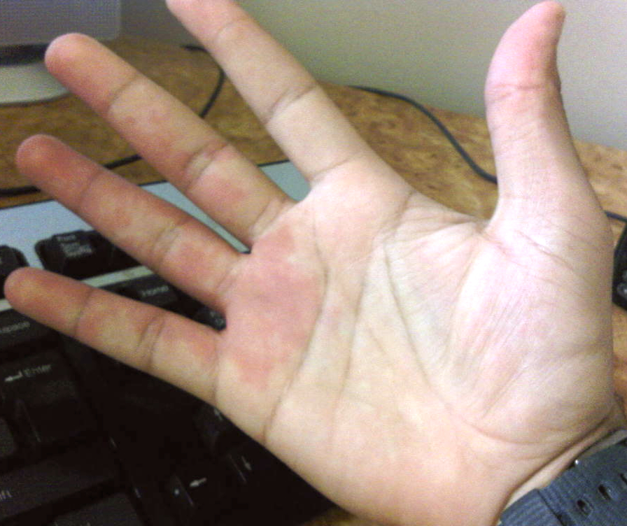 my hand with port-wine stain